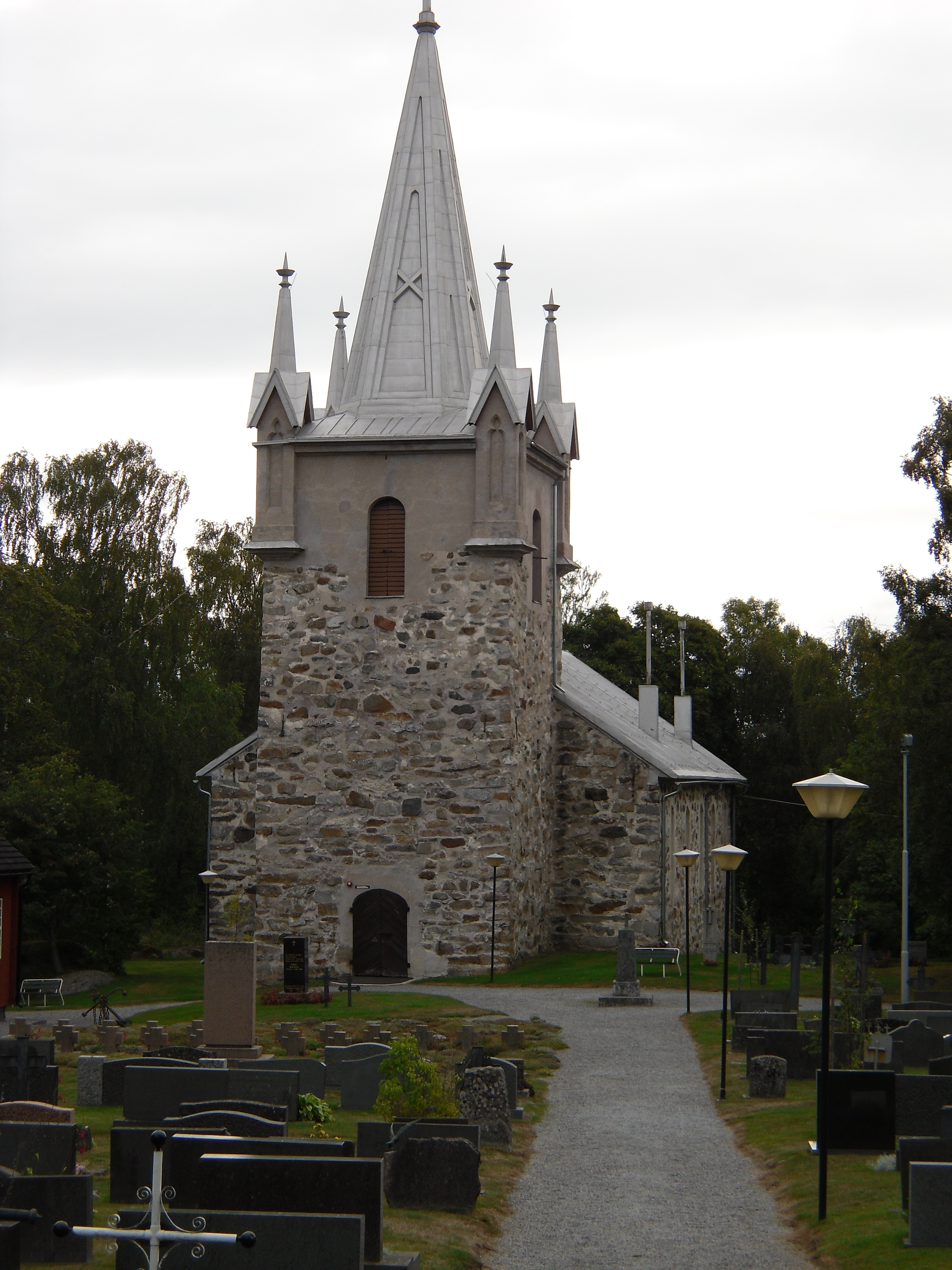 Uudenkaupungin Pyhämaan uusi harmaakivikirkko